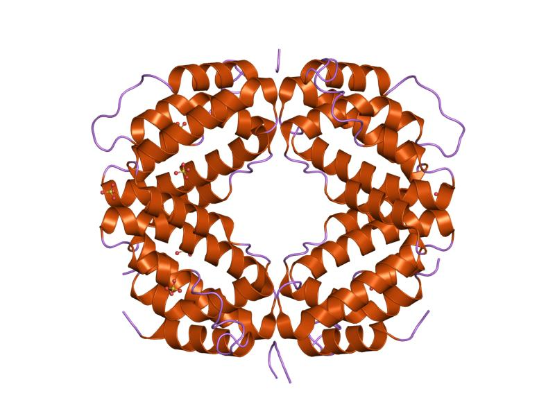 Cartoon representation of the molecular structure of protein registered with 1eku code.